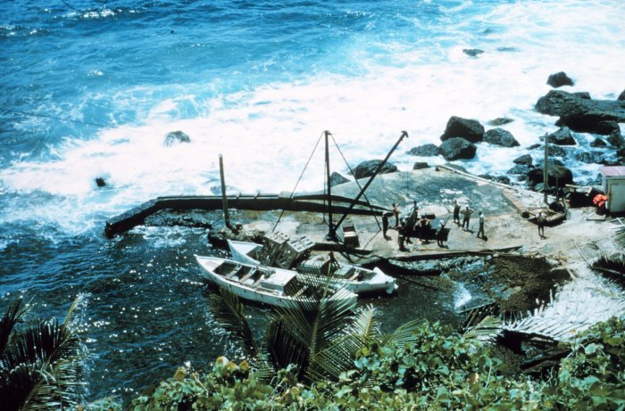 Landing on Pitcairn Island - Bounty Bay in 1970's